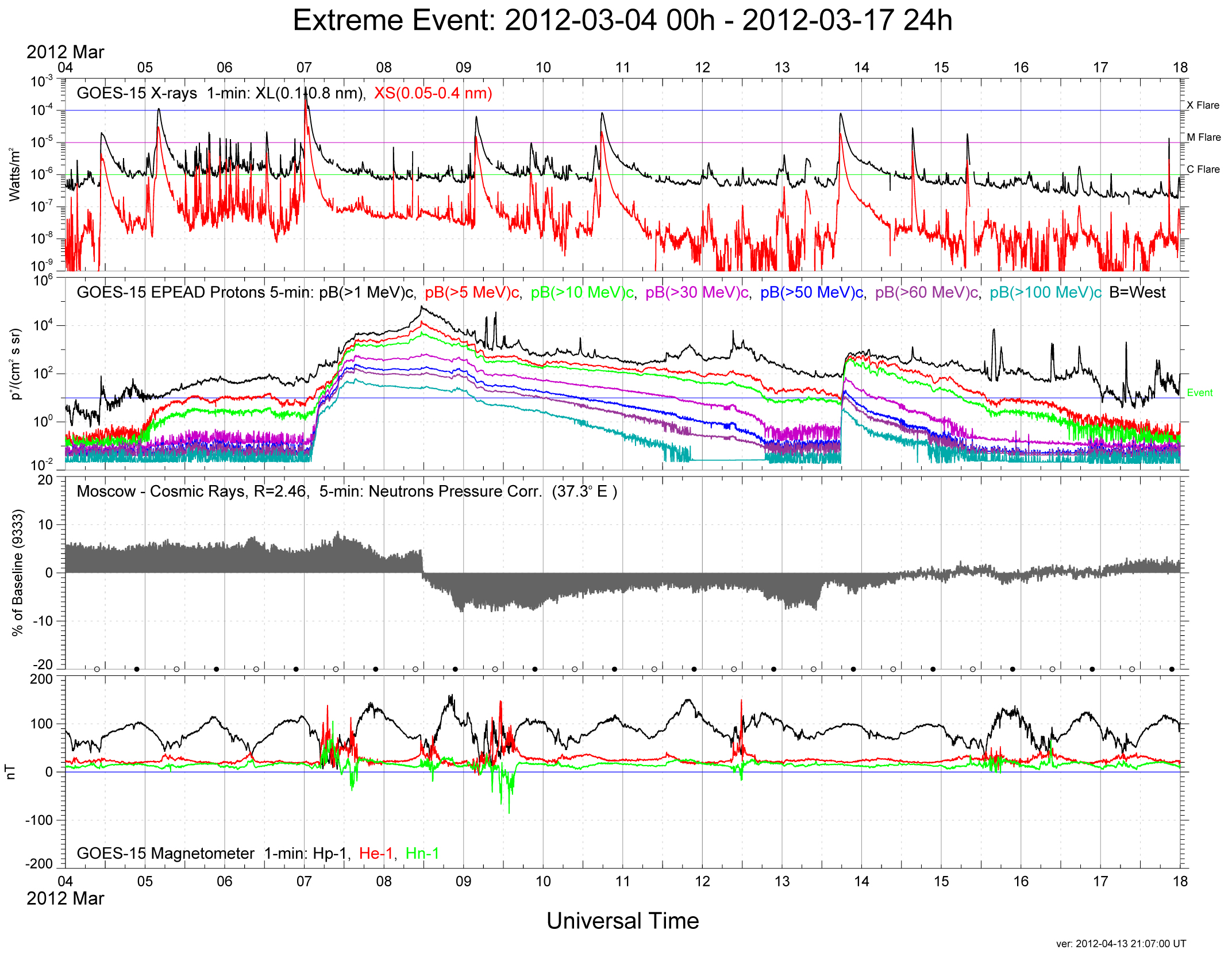 Space weather conditions associated with solar activity in March 2012. Data include GOES-15 X-rays, energetic particles, and magnetometer. Cosmic Rays from the Moscow station show a Forbush Decrease.